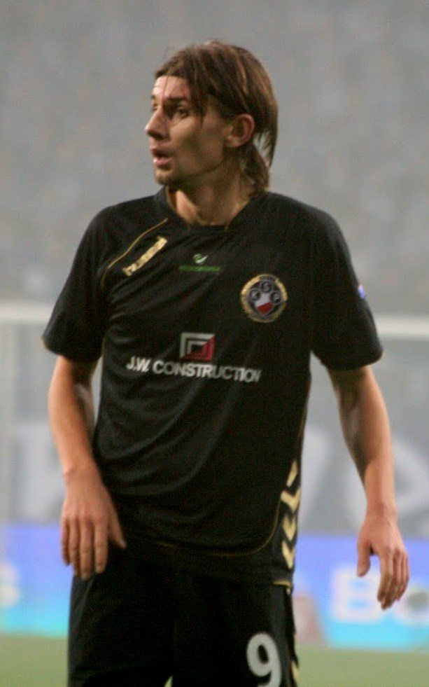 Polish football player Euzebiusz Smolarek